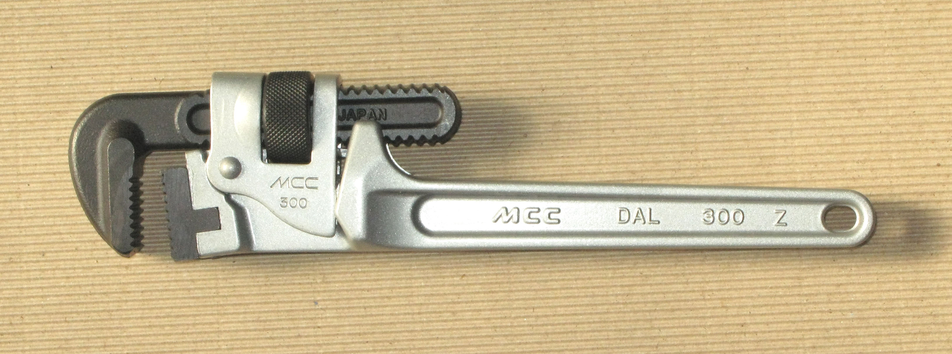 drop-forged aluminum body. MCC Brand made in japan.